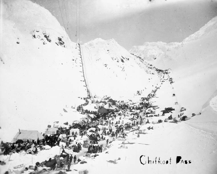 Chilkoot Pass. Scales (in front) and Chilkoot Pass (behind). Left pass: Golden Stairs, Right pass: Pederson Pass